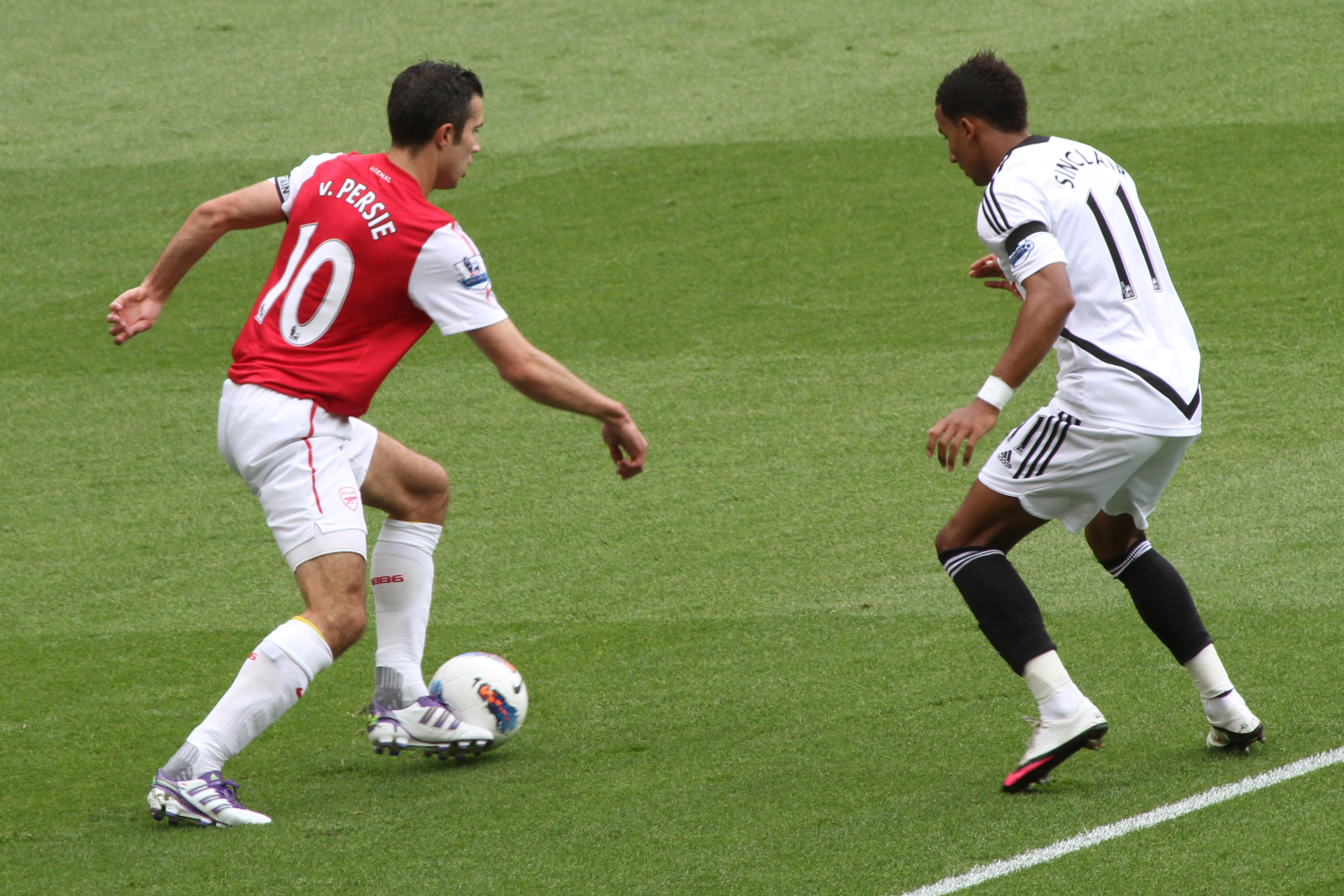 Robin Van Persie & Scott Sinclair 1